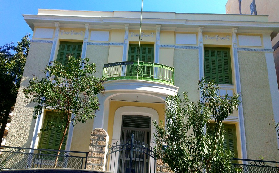 patisia